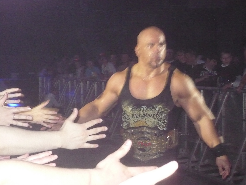 TNA wrestling Superstar, Super Mex Hernandez